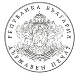 Great Seal of Bulgaria